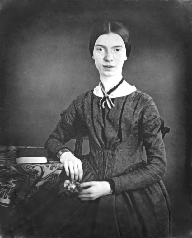 Daguerreotype of the poet Emily Dickinson, taken circa 1848. (Restored version.) From the Todd-Bingham Picture Collection and Family Papers, Yale University Manuscripts & Archives Digital Images Database, Yale University, New Haven, Connecticut.